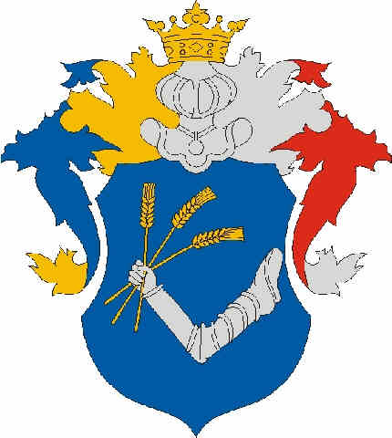 Coat of arms of Akasztó, Hungary